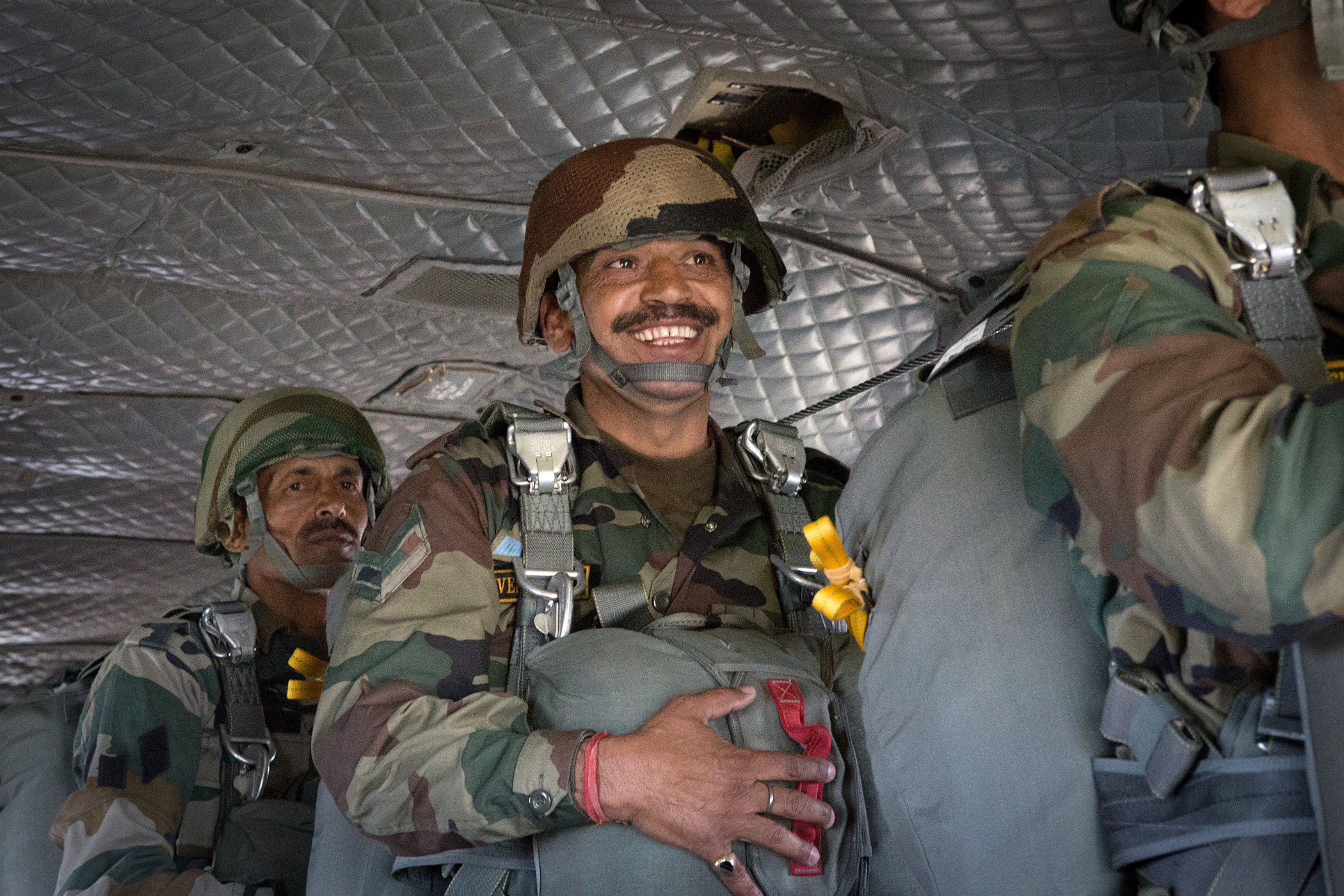 An Indian Army paratrooper smiles before jumping from a CH47 Chinook helicopter with paratrooper from the 82nd Airborne Division's 1st Brigade Combat Team during an airborne training operation May 15, 2013, at Fort Bragg, N.C. The training is part of Yudh Abhyas, annual bilateral training between the Indian Army and United States Army Pacific, hosted this year by the division's parent organization, the XVIII Airborne Corps.